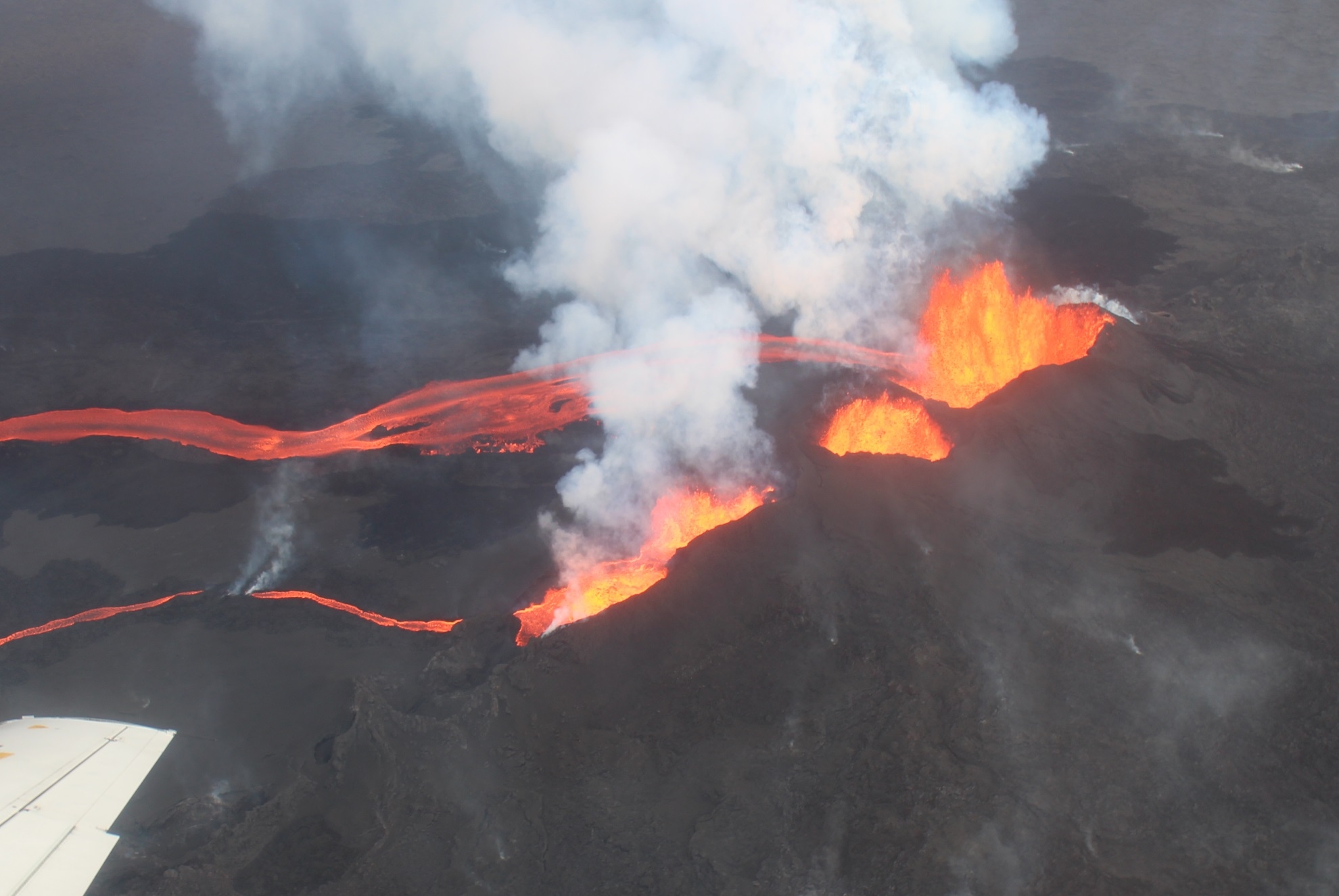 Eruption in Holuhraun Central Iceland september 13 2014. The largest crater,called Baugur, 60 m higer than its surrounding.